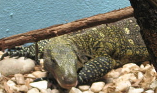 A Papua monitor at the OKC Zoo.